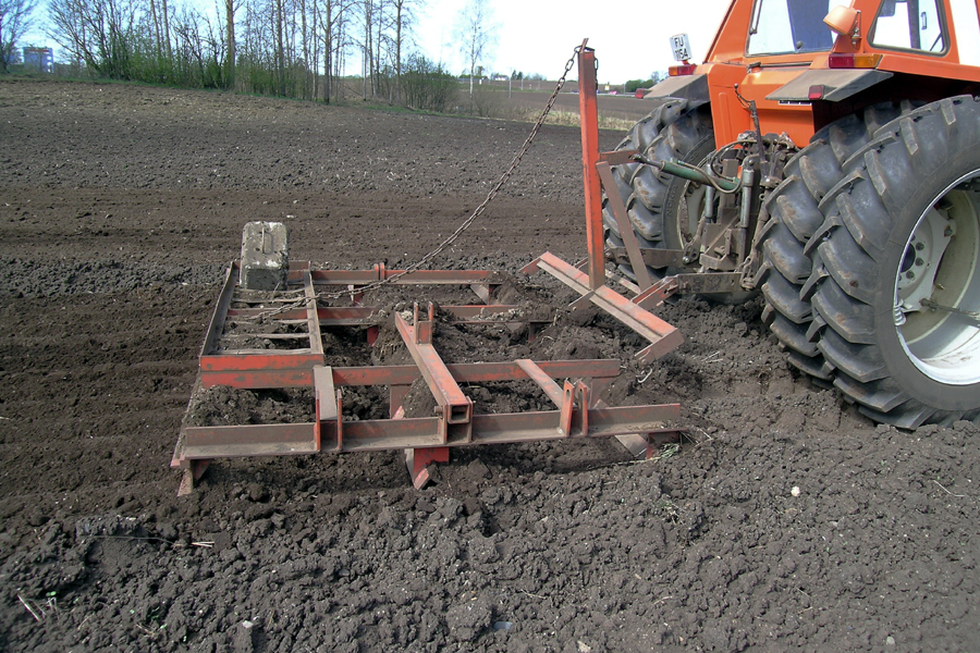 Float/drag/clod crusher/planker